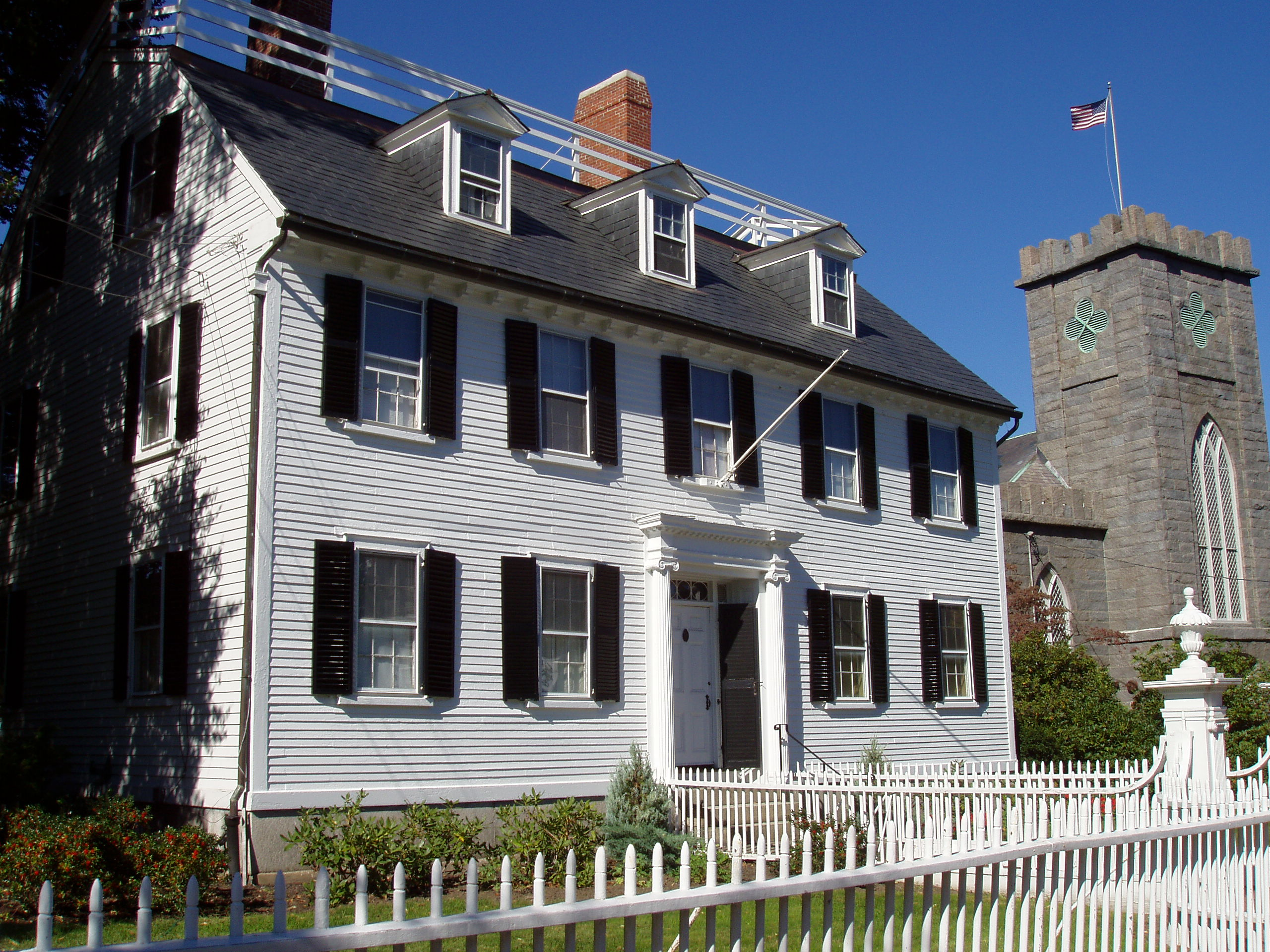 Ropes Mansion - Salem, Massachusetts. Photograph taken by me, September 2005.